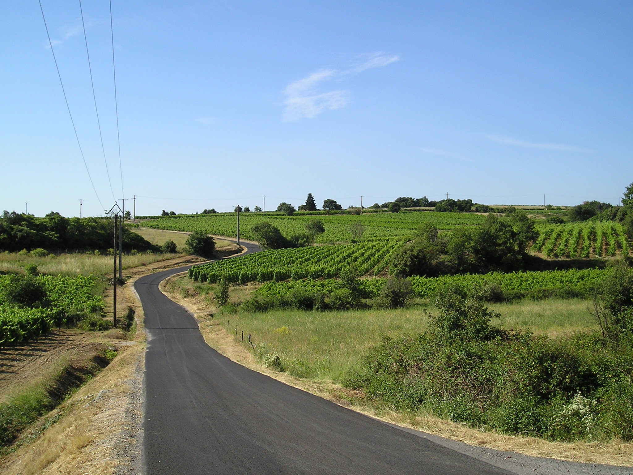 Hérault, France, road D102 directing from north (foreground) to Murviel-lès-Montpellier village (to the upper right of the picture). Note: road of the Tour de France 2009 4th step from bottom to upper right of the picture.